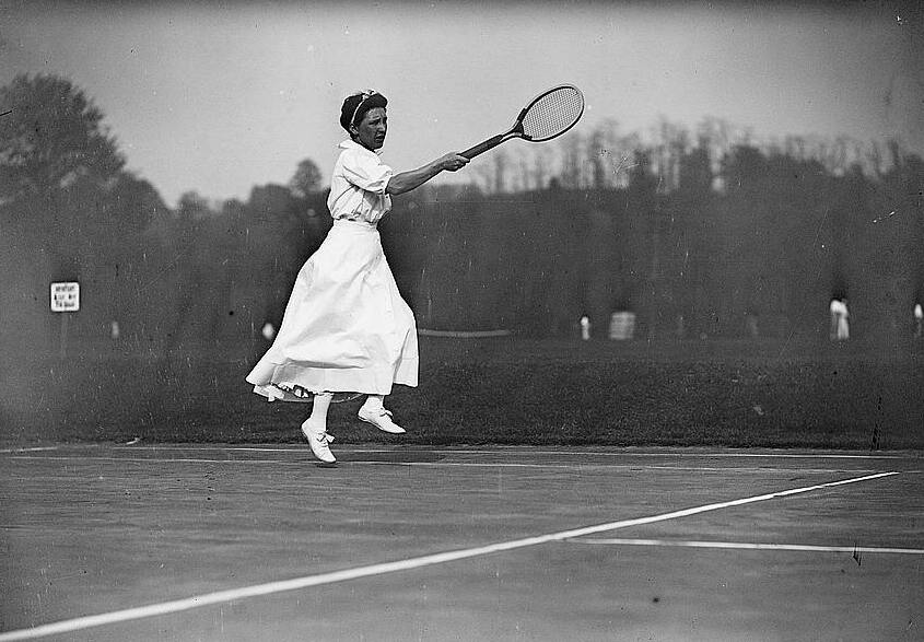 Miss E. Moore (LOC) Bain News Service,, publisher. Miss Elizabeth H. Moore circa 1912 [between ca. 1910 and ca. 1915] 1 negative : glass ; 5 x 7 in. or smaller. Notes: Title from data provided by the Bain News Service on the negative. Photo shows Elisabeth "Bessie" Holmes Moore (1876-1959), a young tennis champion who won her first U.S. title in 1896. (Source: Flickr Commons project and New York Times, 2008) Forms part of: George Grantham Bain Collection (Library of Congress). Format: Glass negatives. Repository: Library of Congress, Prints and Photographs Division, Washington, D.C. 20540 USA, General information about the Bain Collection is available at Persistent URL: Call Number: LC-B2- 2274-16